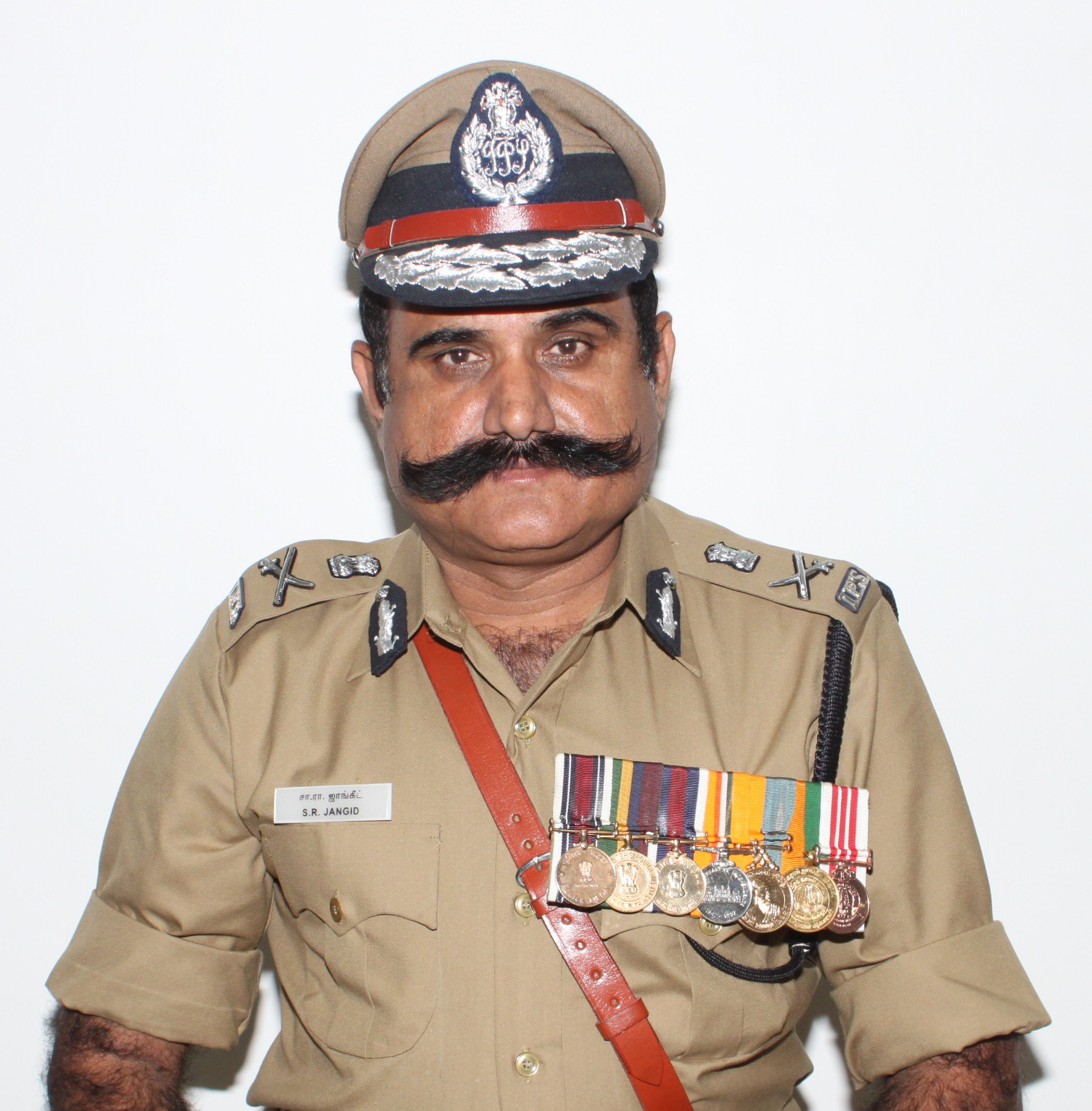 S R Jangid